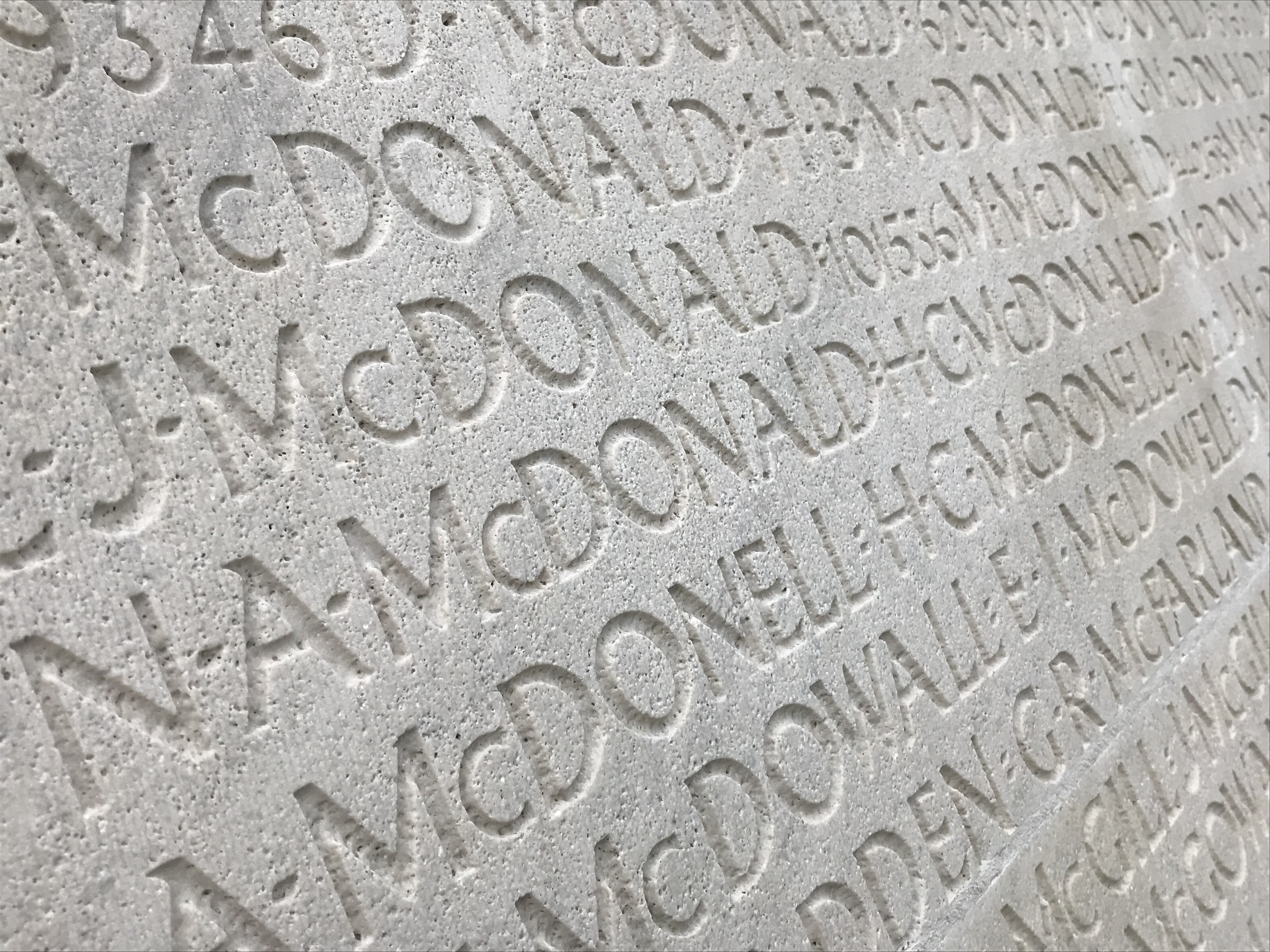 The base of the Vimy monument is inscribed with the names of soldiers of the Canadian Forces who died in the Great War (1914-1918) and whose graves are not known.